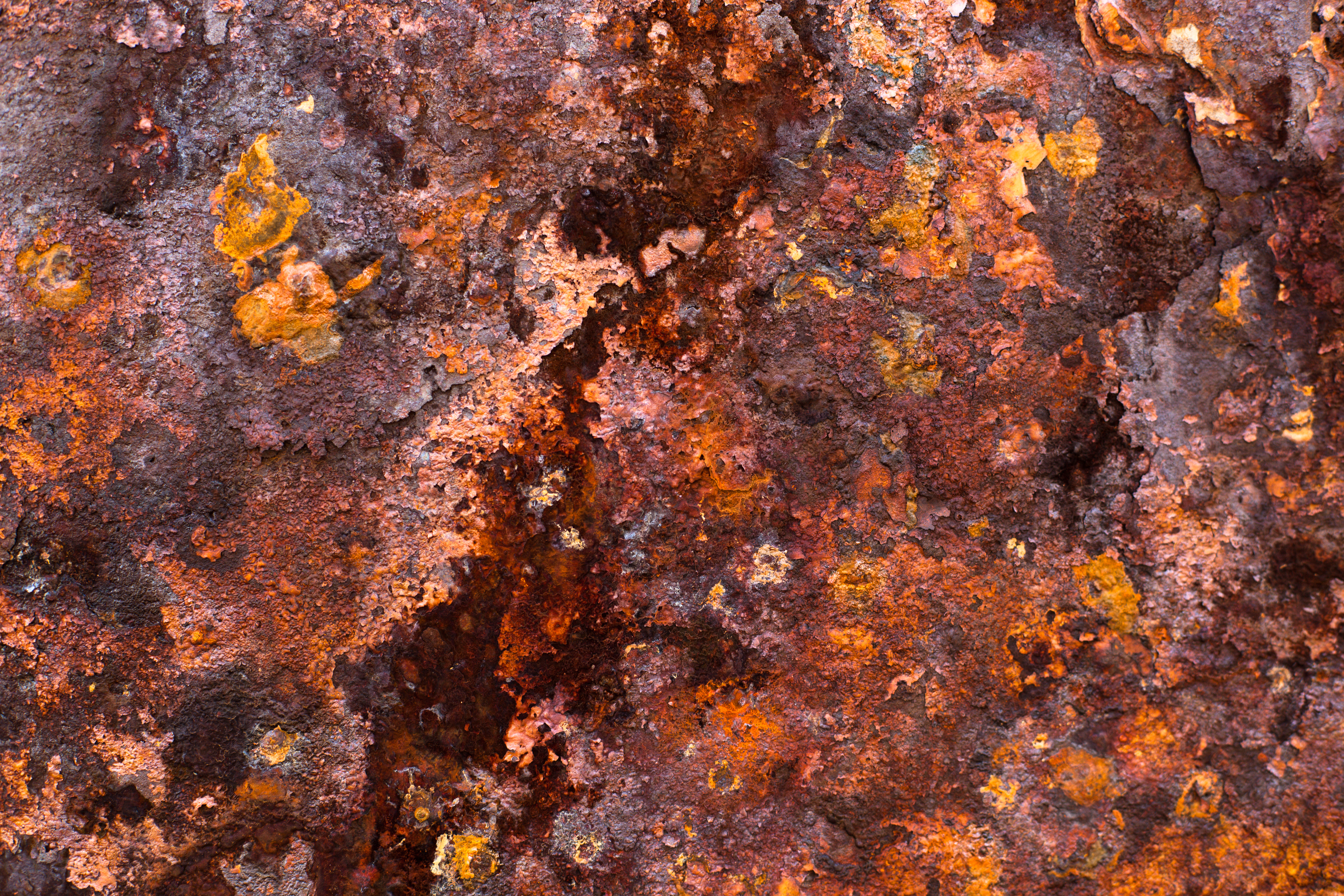 Rust